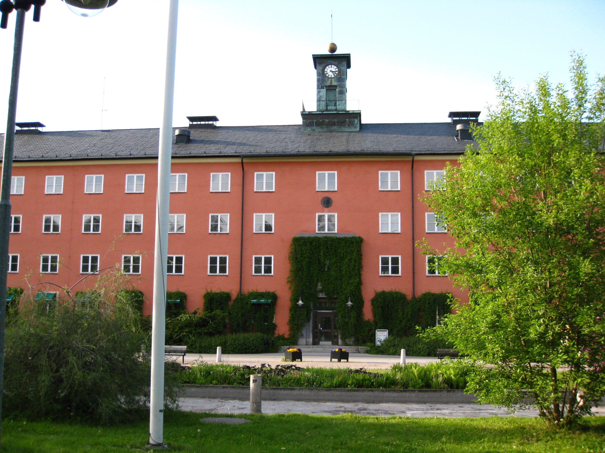 Beckomberga hospital, Bromma, western Stockholm, Sweden